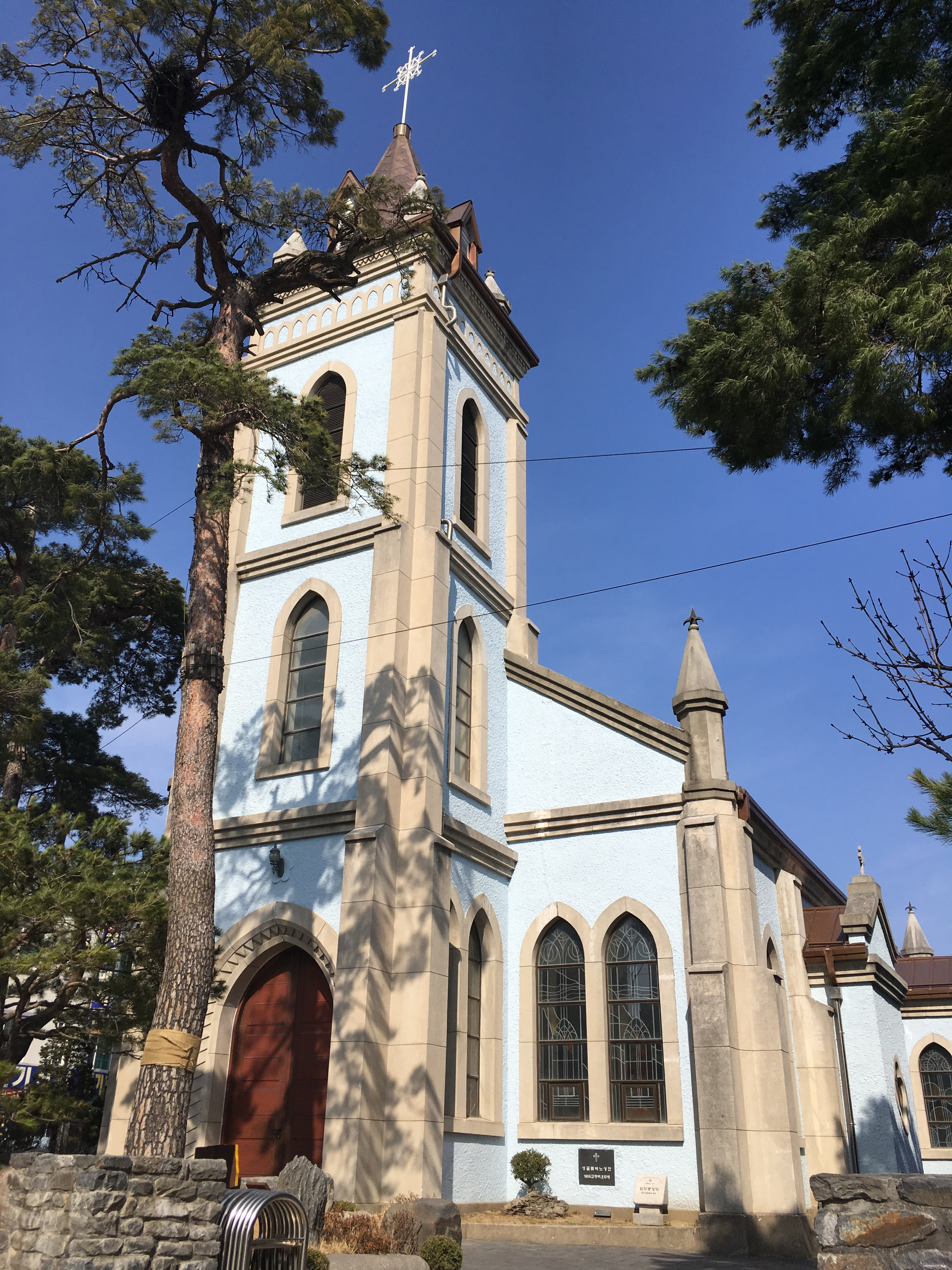 Catholic Church in Imdang-dong, Gangneung, South Korea